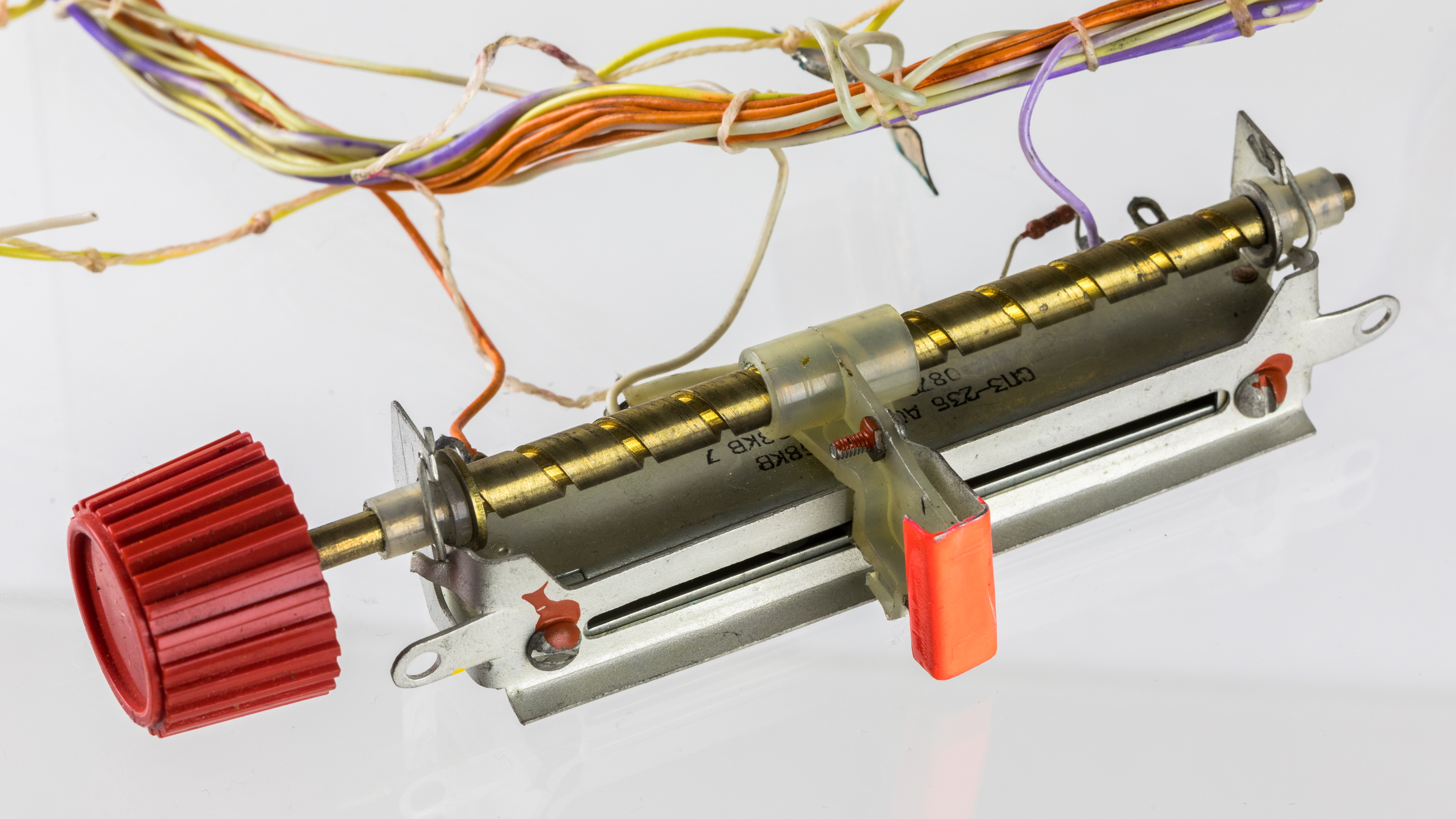 Mini Star 416 - control knob with leadscrew, mounted on a potentiometer